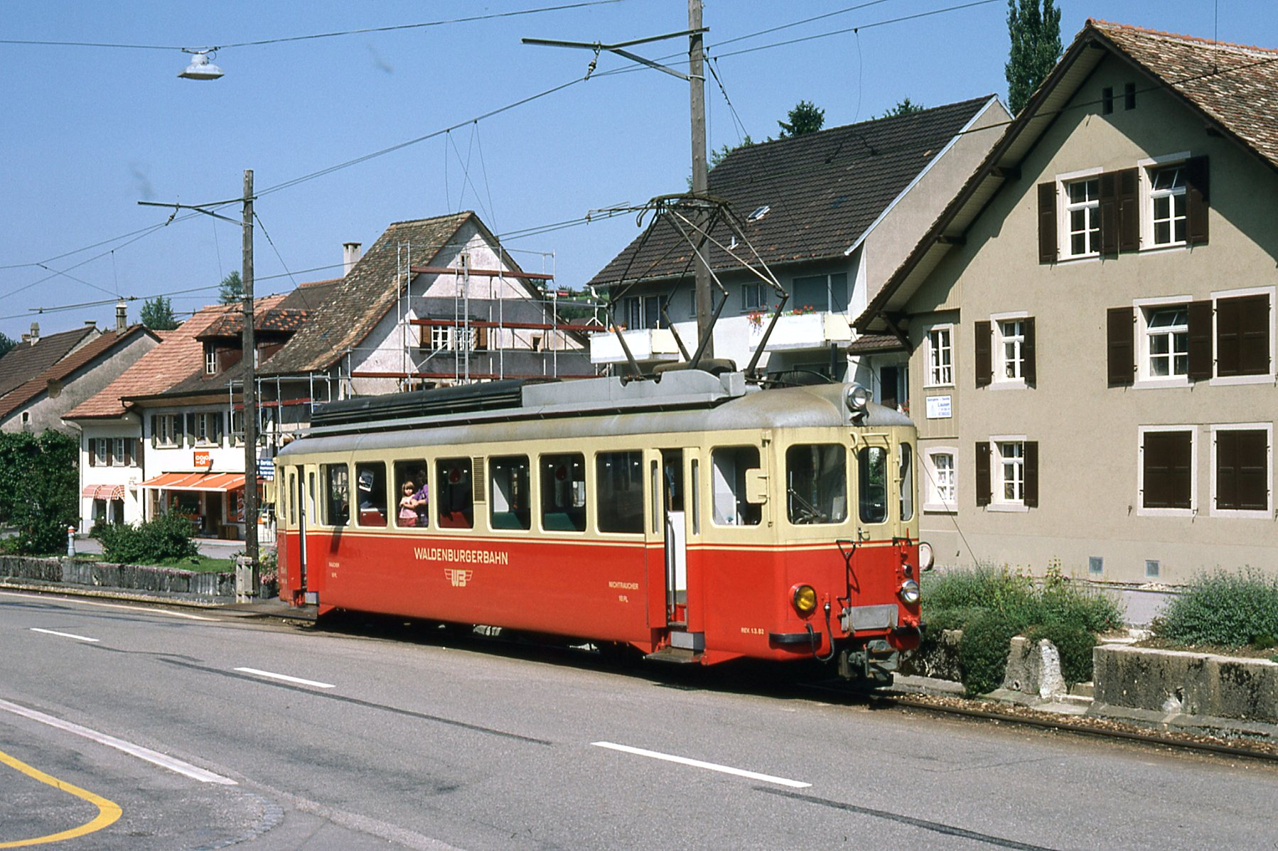 A 1953 Schindler-built tramcar of the Waldenburgerbahn, BL, Switzerland, a 750mm-gauge line, on a single-track section of the route.